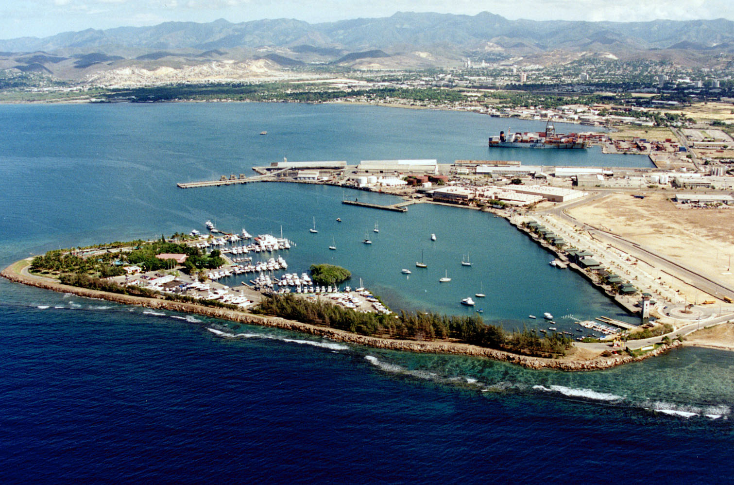 Aerial view of the port at Ponce, Puerto Rico, on the Caribbean Sea. View is from the sea to the north-northwest over the port and city. Coordinates: 17°58′9.2″N 66°37′6.2″W / 17.969222°N 66.618389°W